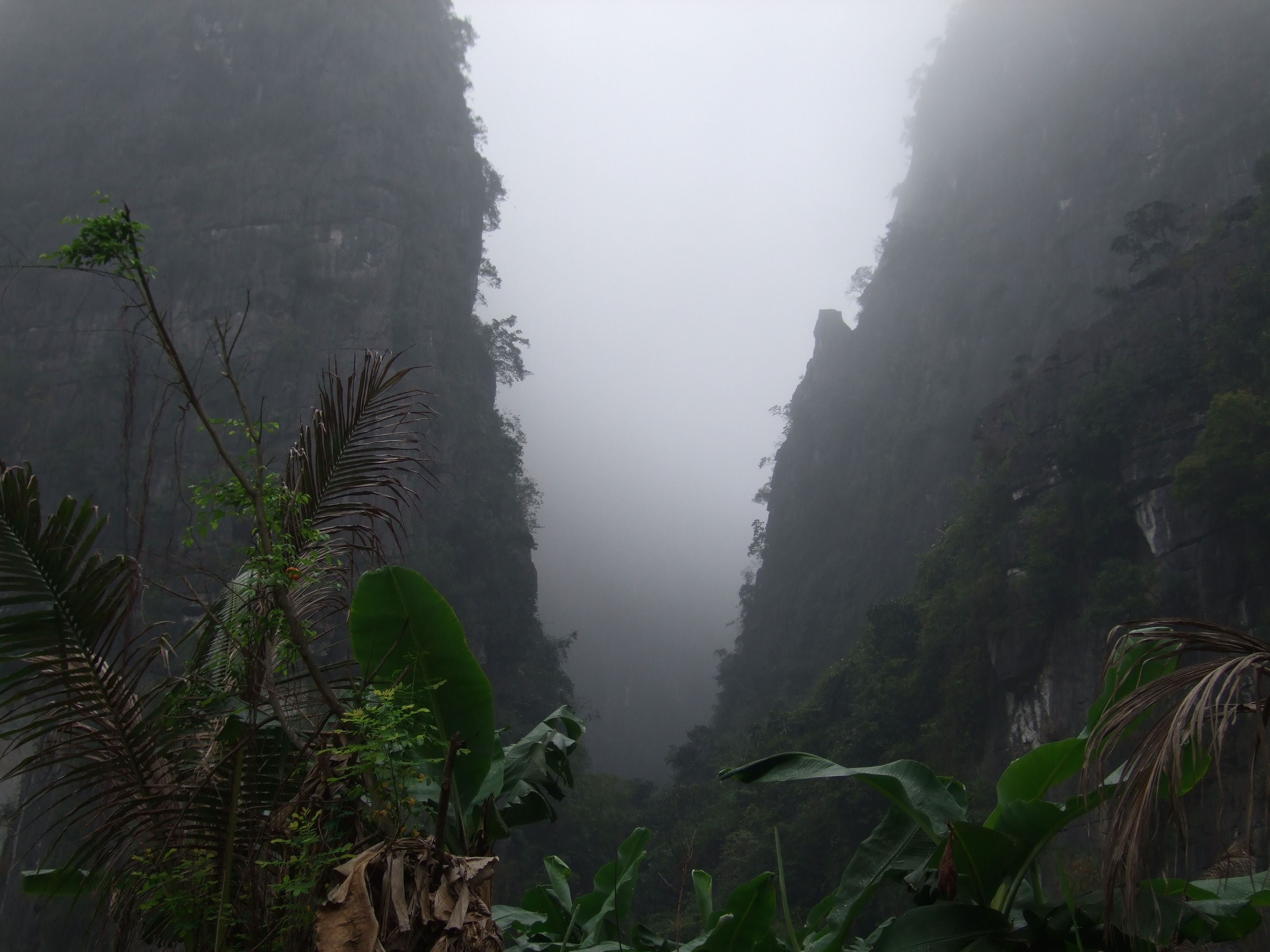 Valley in northern Vietnam.